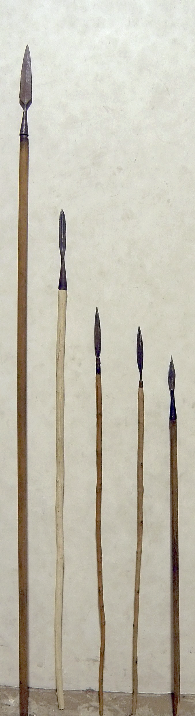 A medieval melee fighting spear and a series of javelins. All are hand forged reproductions.